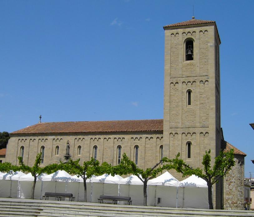 Image of the Sant Esteve's Church in the Spanish town of Parets del Vallès (Catalonia, Spain).